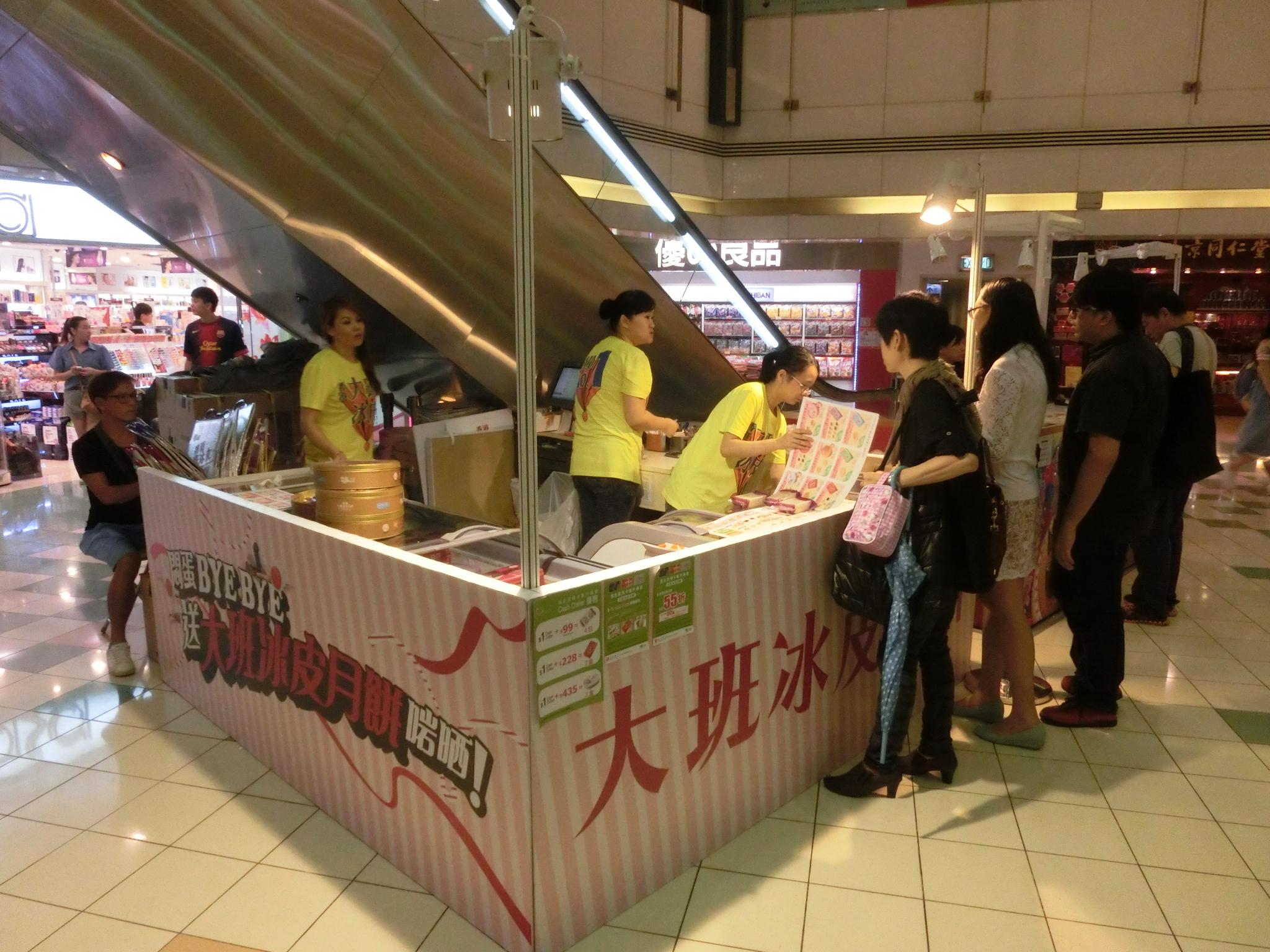 上環 信德中心, Mooncake logistics stalls in Shun Tak Centre, Sheung Wan, Hong Kong